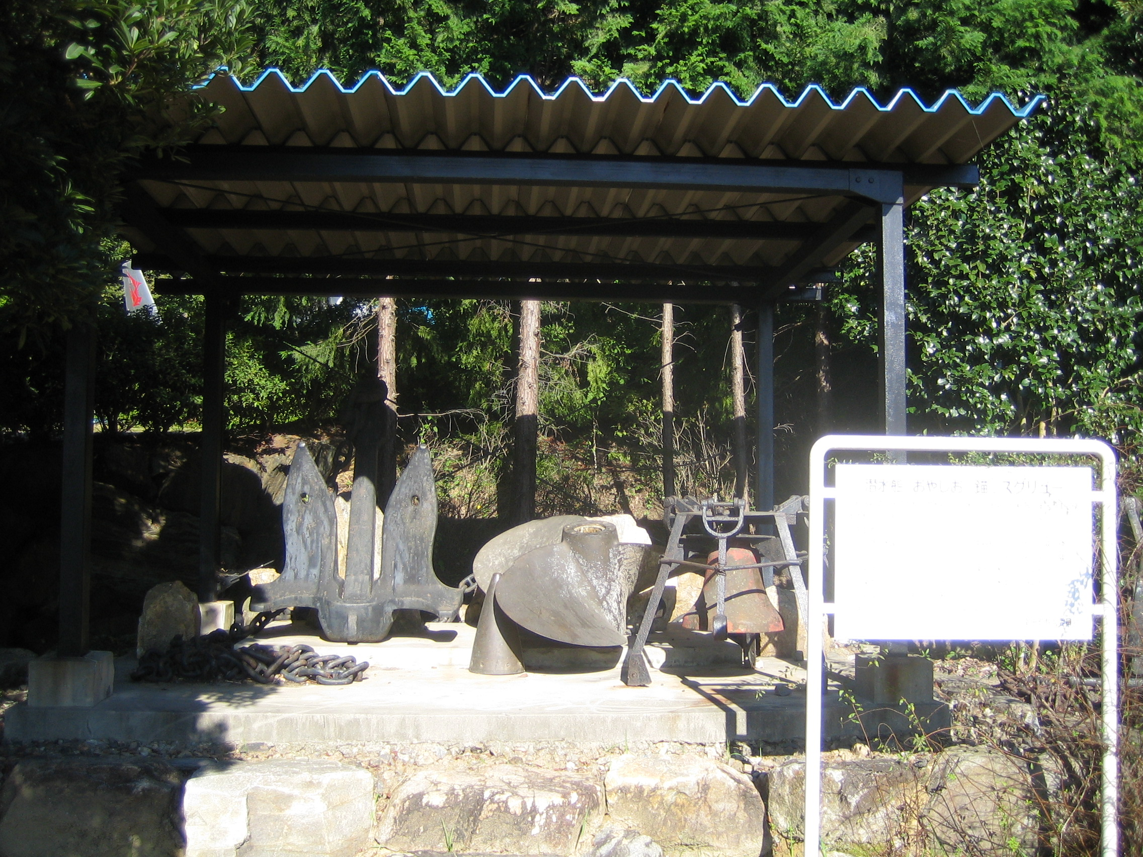 Anchor and screw of the submarine "SS511 Oyashio", in Kota, Aichi, Japan